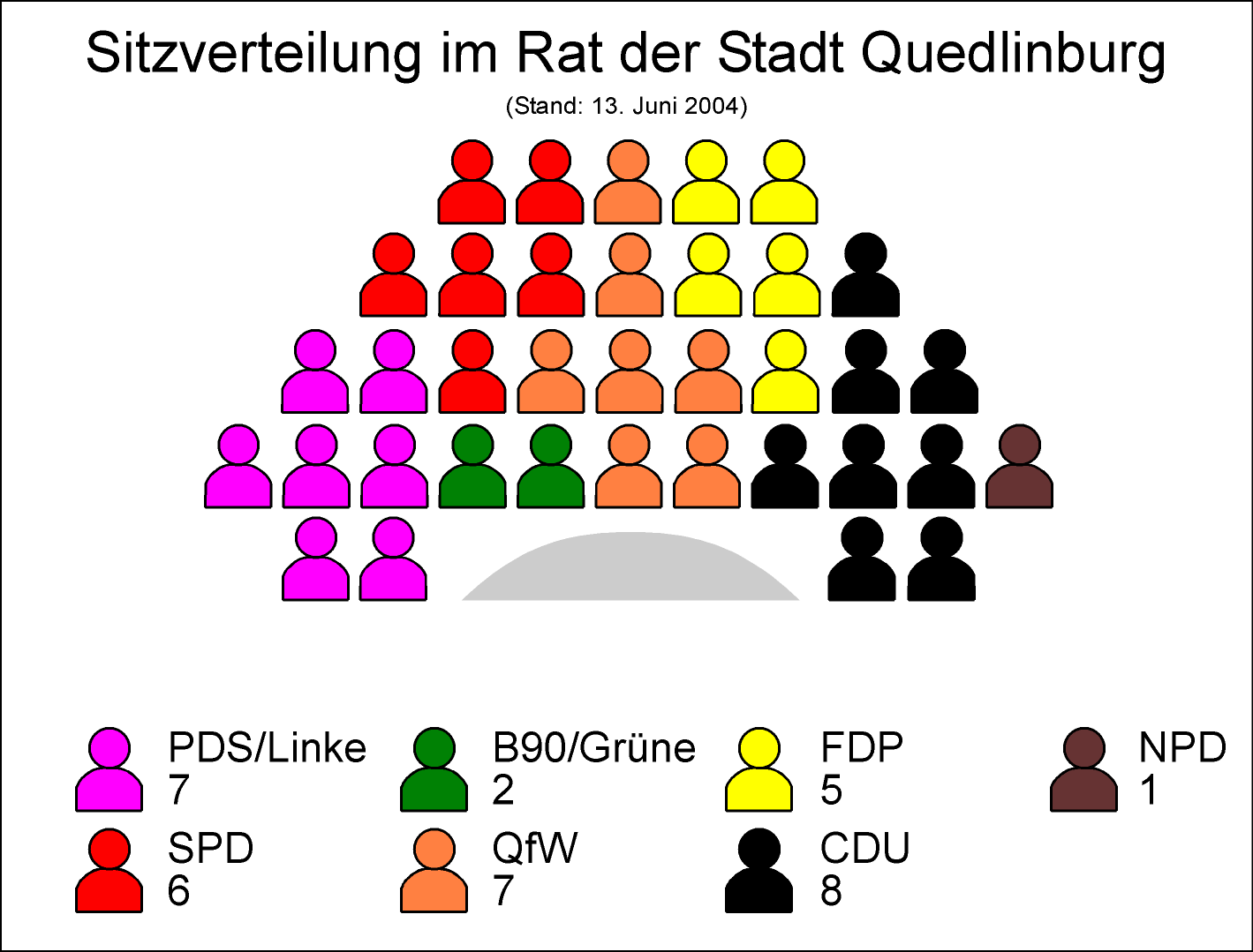 Seating of the Quedlinburg city council